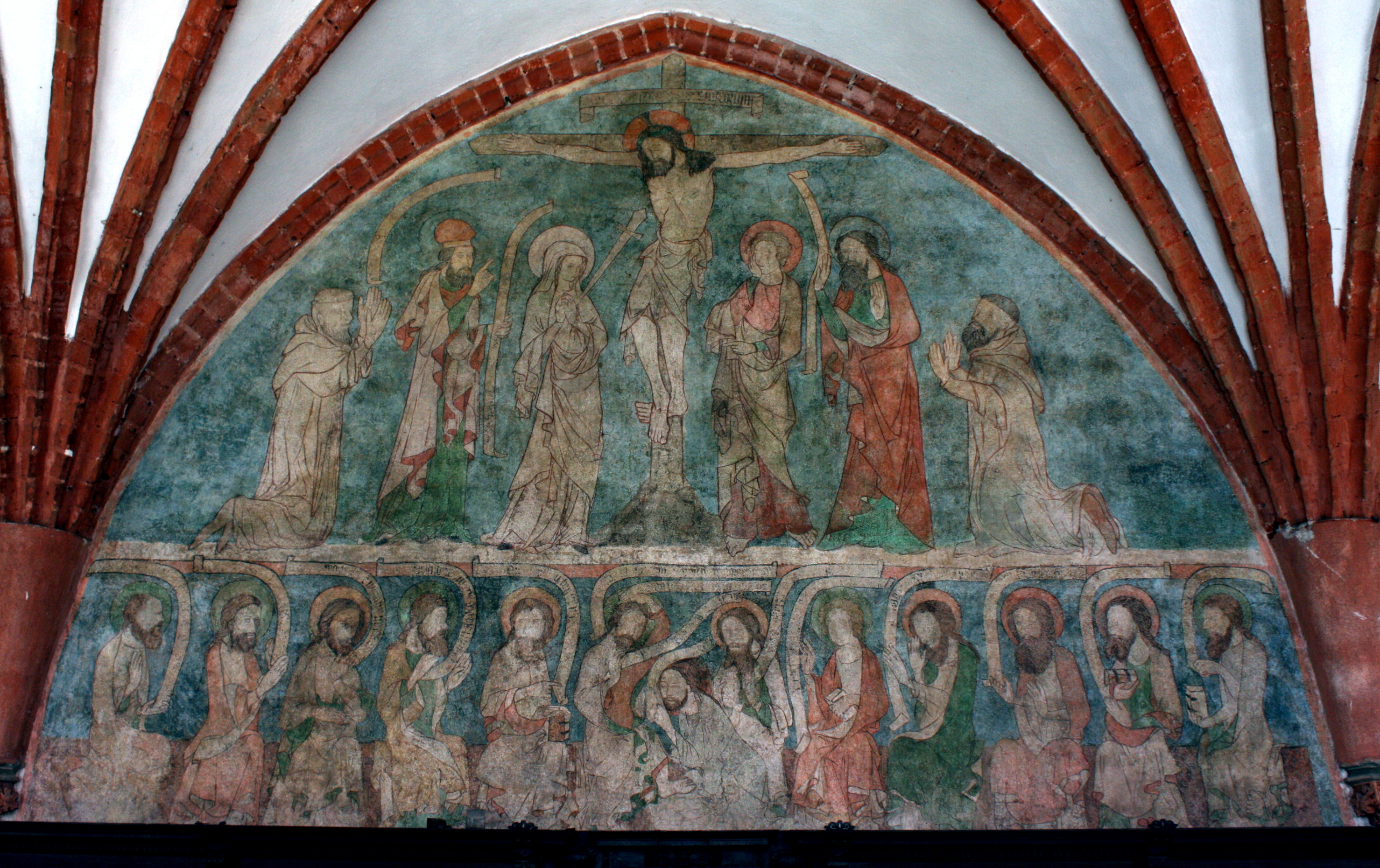 Former Cistercian Monastery in Pelplin